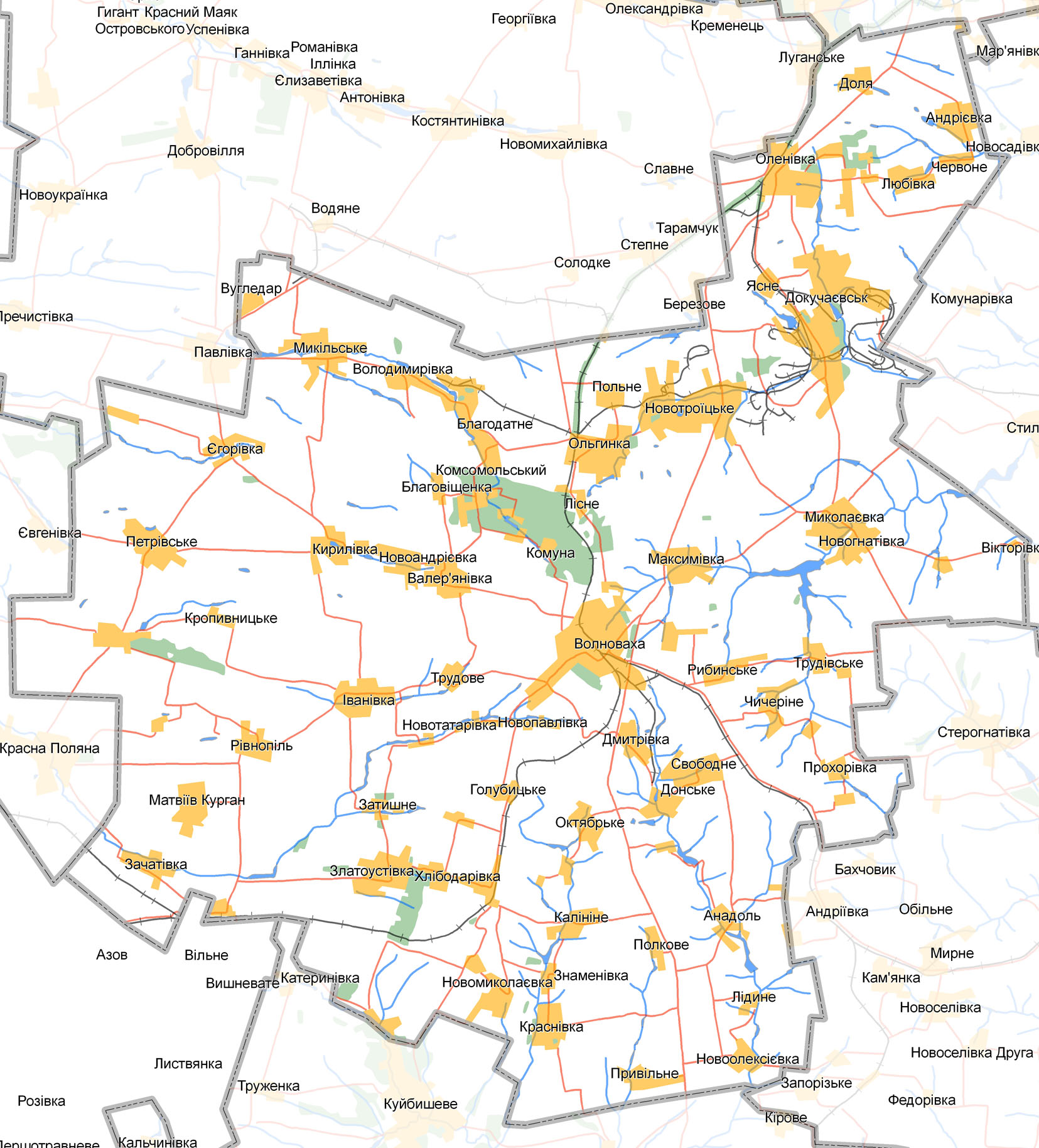 Map of Volnovakha Raion, Donetsk Oblast, Ukraine (before 2014)